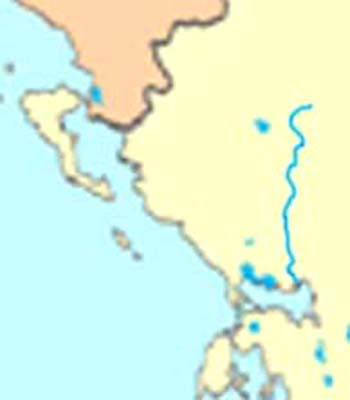 Map of Epirus depicting Arachtos river